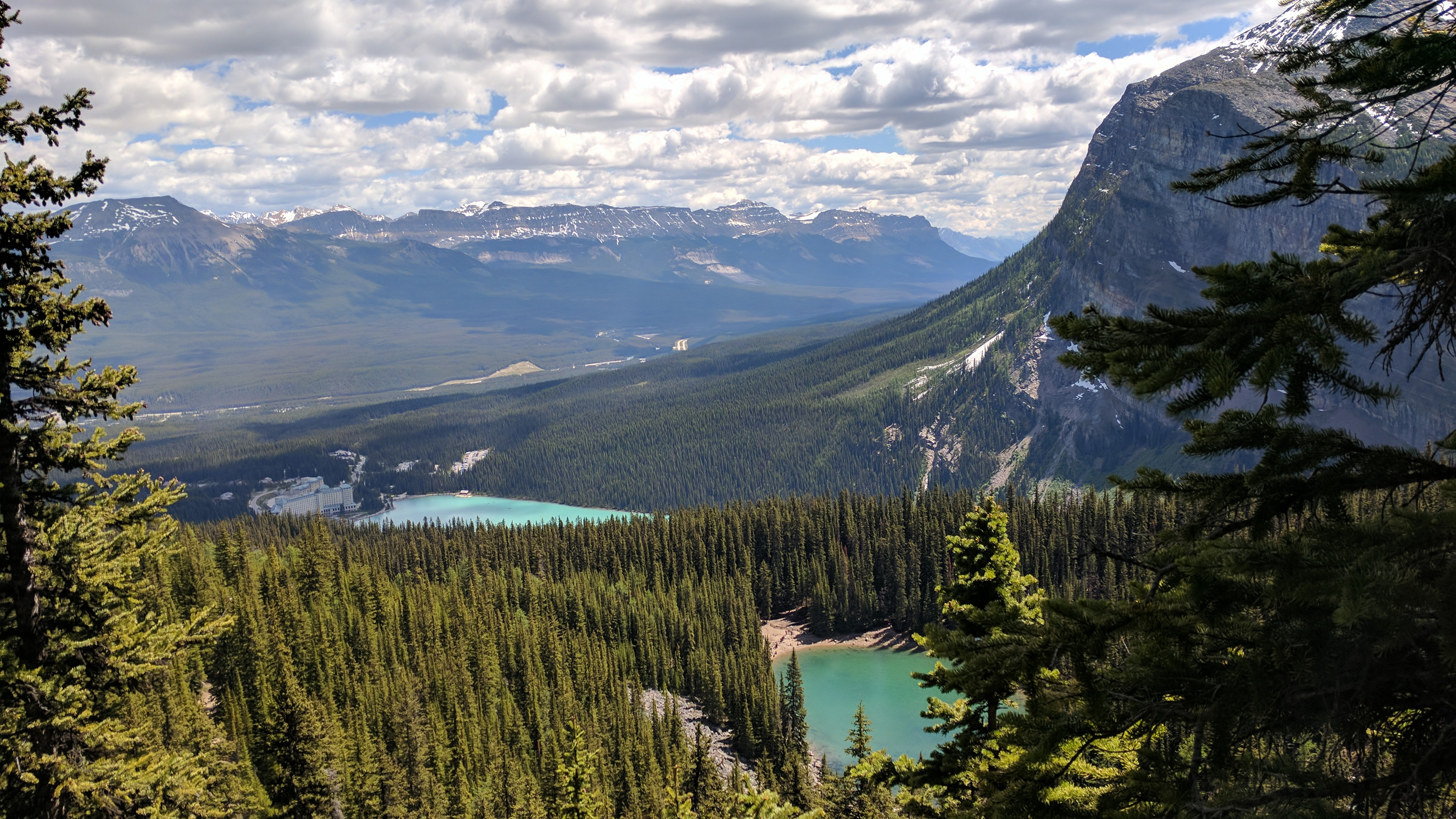 a elevated view of lake mirror and lake louise This photo was taken in a protected area in Canada, Wikidata item Banff National Park (Q41858)